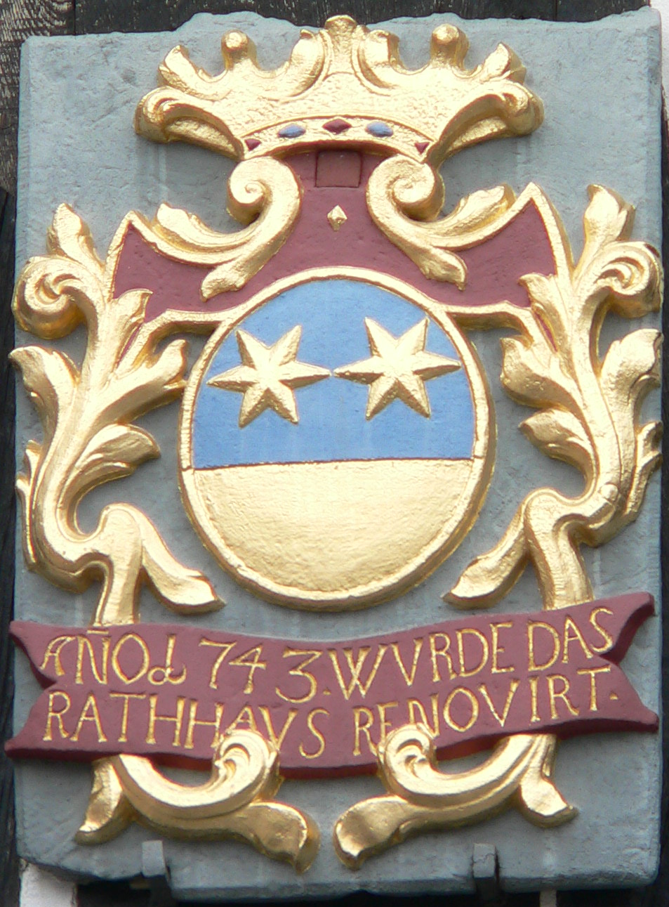 Old Coat of arms on the townhall of Michelstadt/Germany